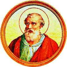 Portrait of Pope Anacletus un the Basilica of Saint Paul Outside the Walls, Rome